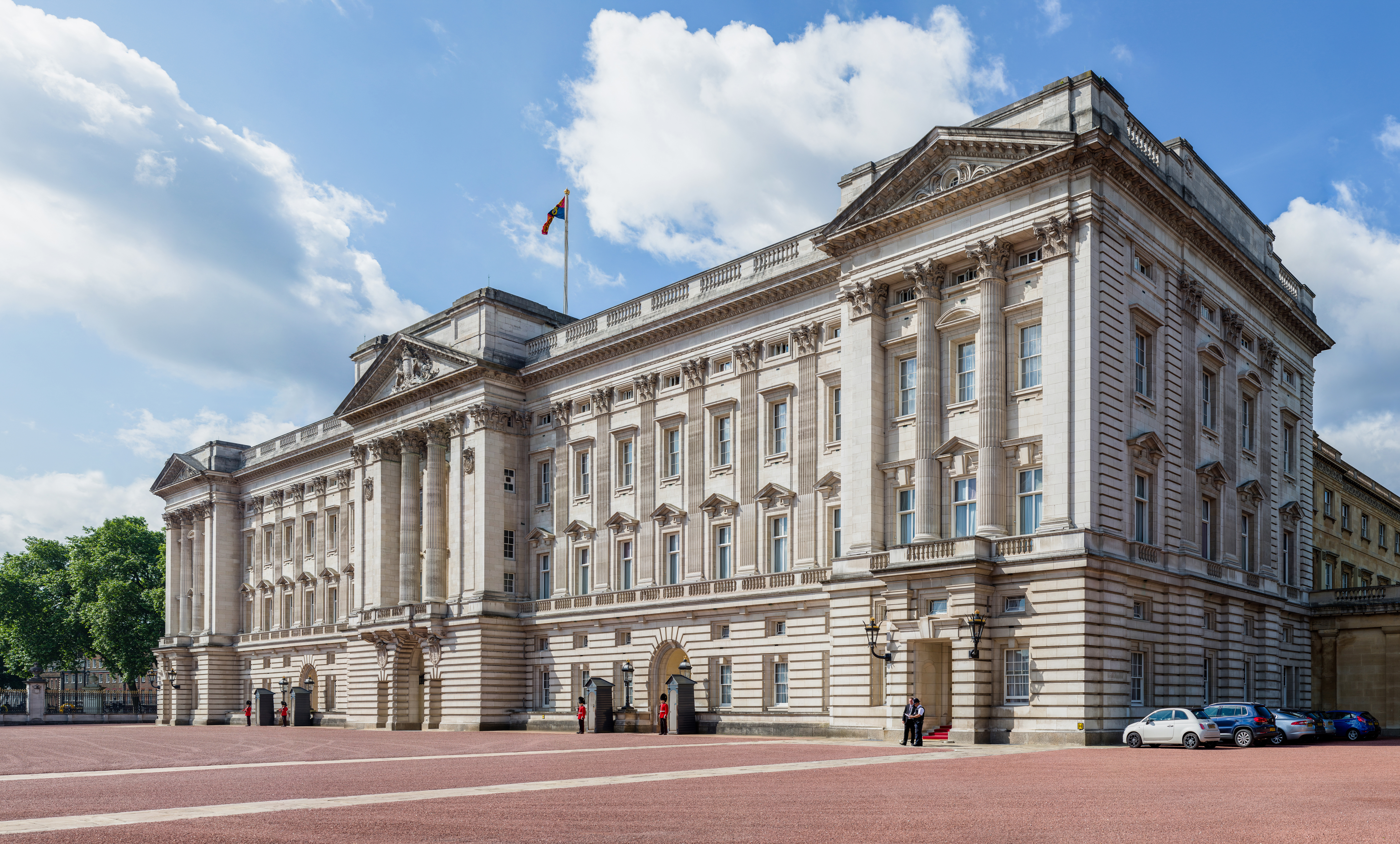 A high resolution view of Buckingham Palace at an angle from the north.